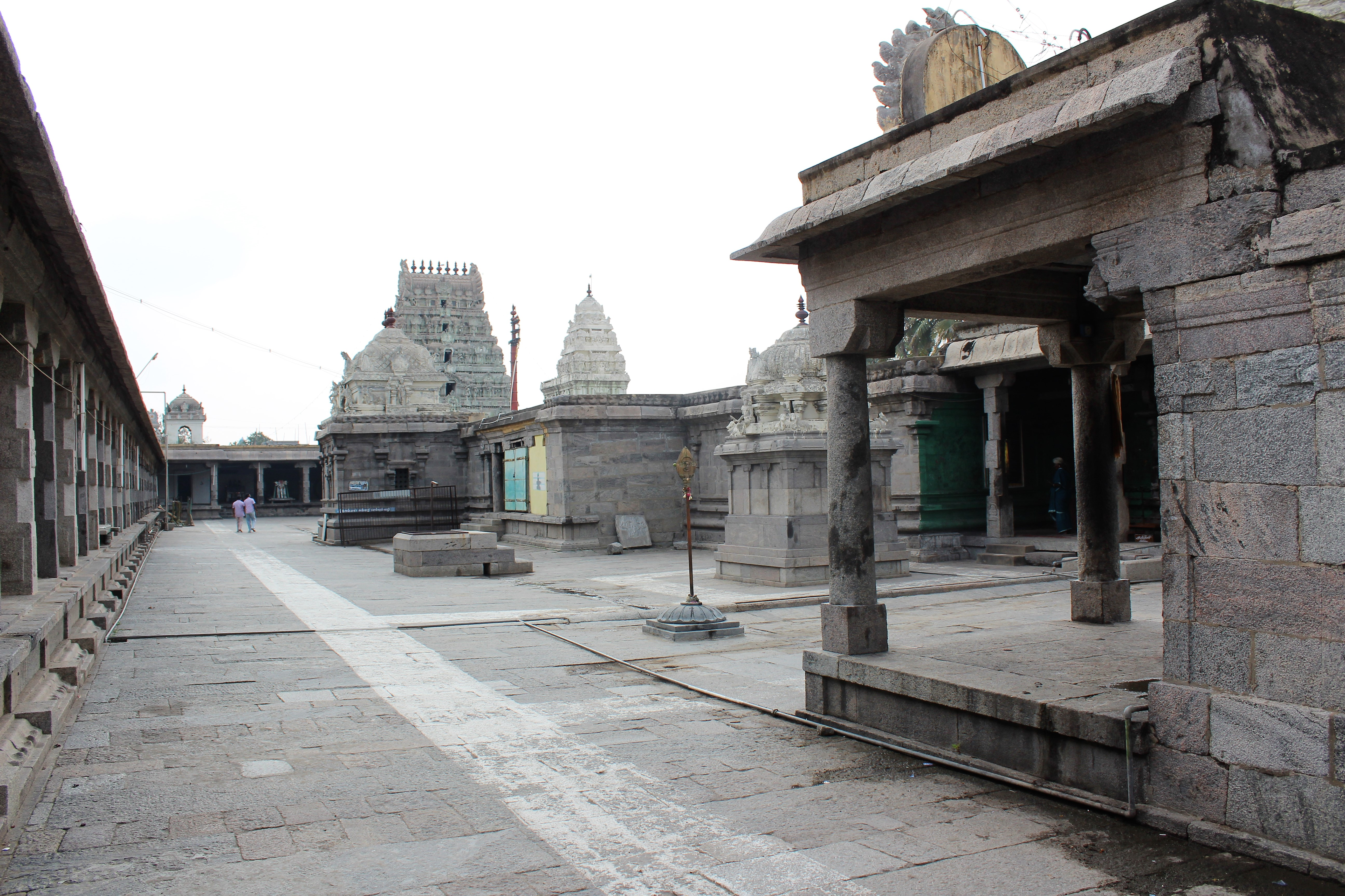 Kripapureeswarar temple, Thiruvennainallur